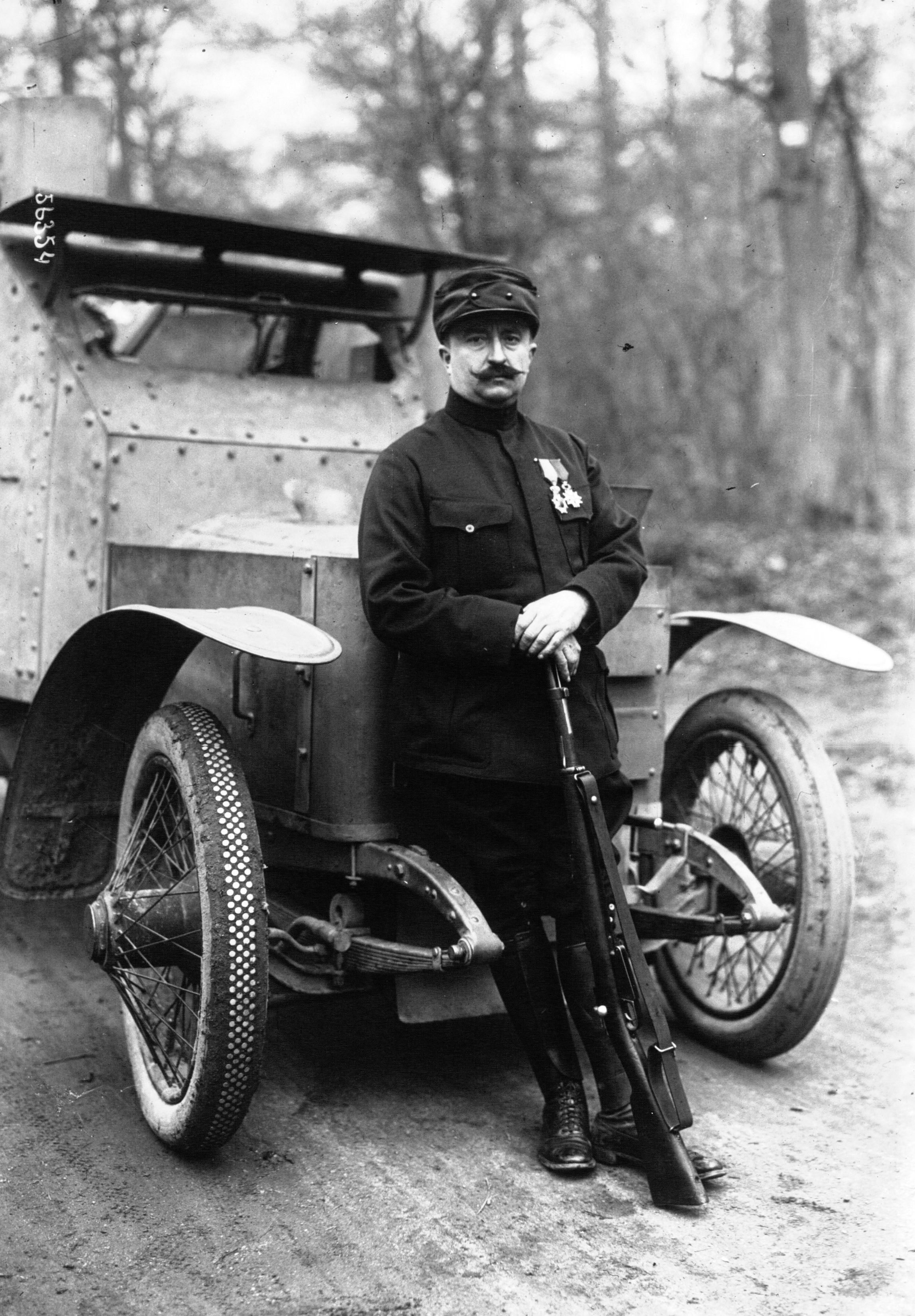 Baron Pierre de Crawhez, photographié en 1915.